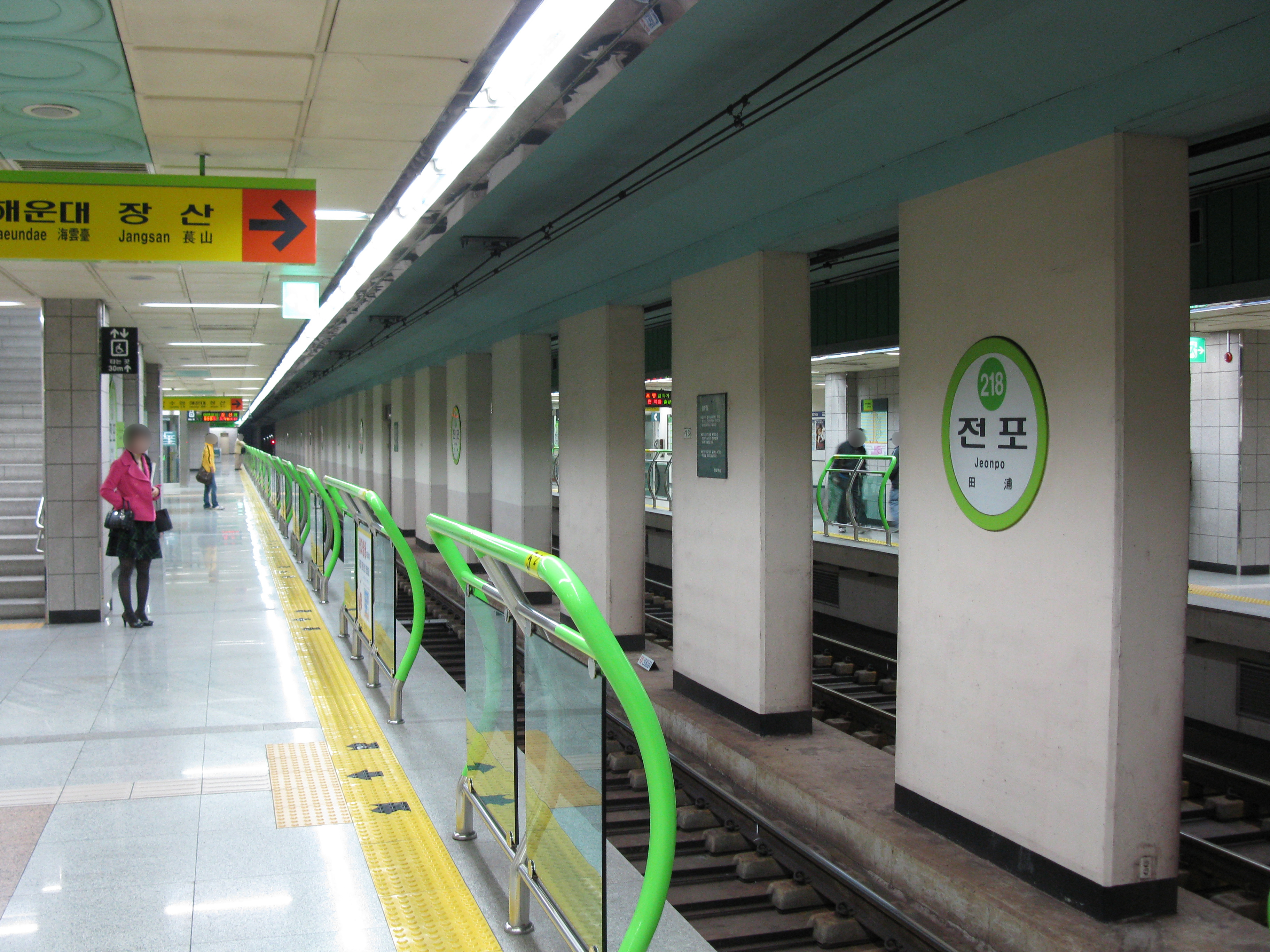 The platforms at Jeonpo Station on the Busan Subway Line 2 in Busanjin-gu, Busan, Republic of Korea(South Korea)